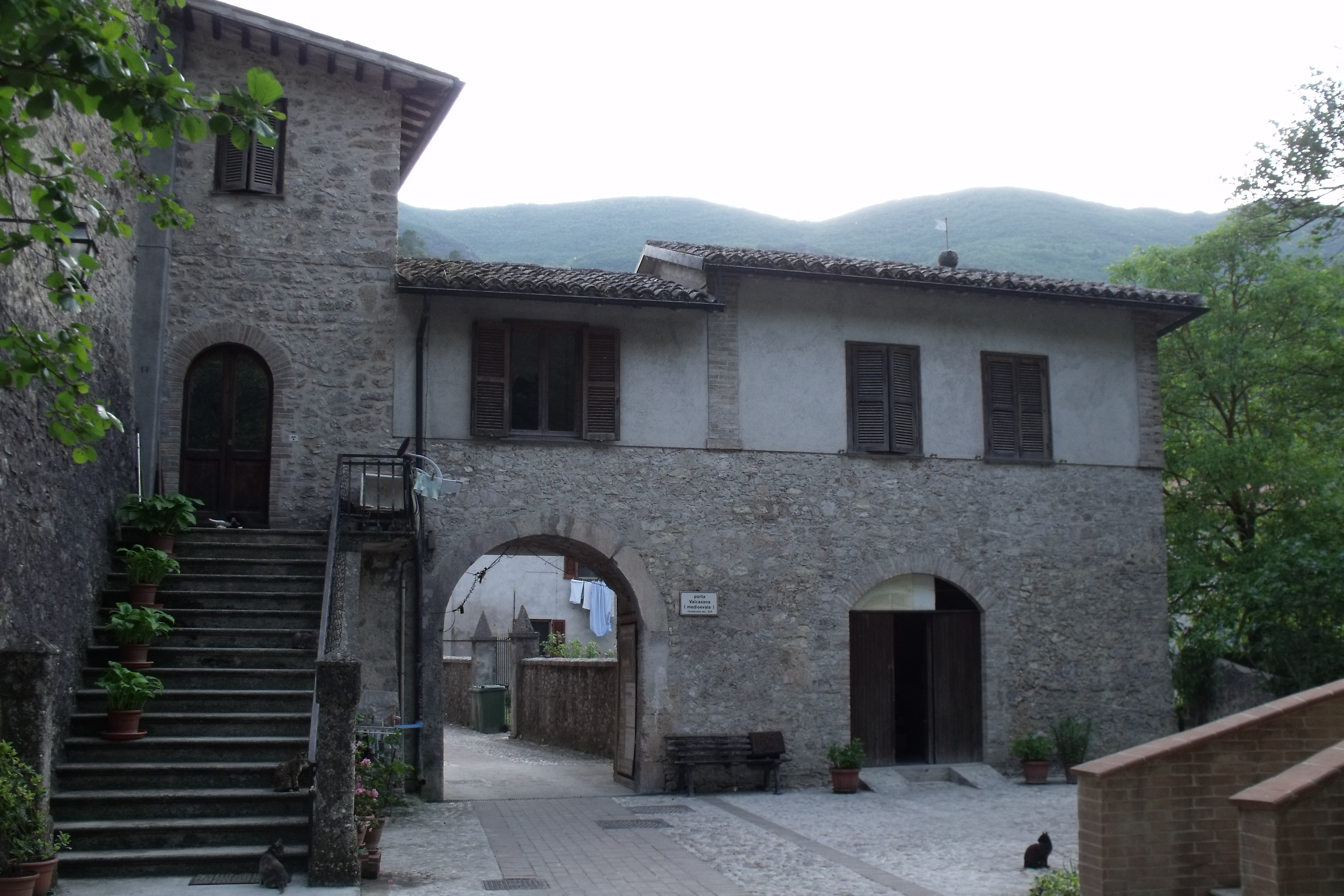 City gate Valcasana in Scheggino, Valnerina, Province of Perugia, Umbria, Italy